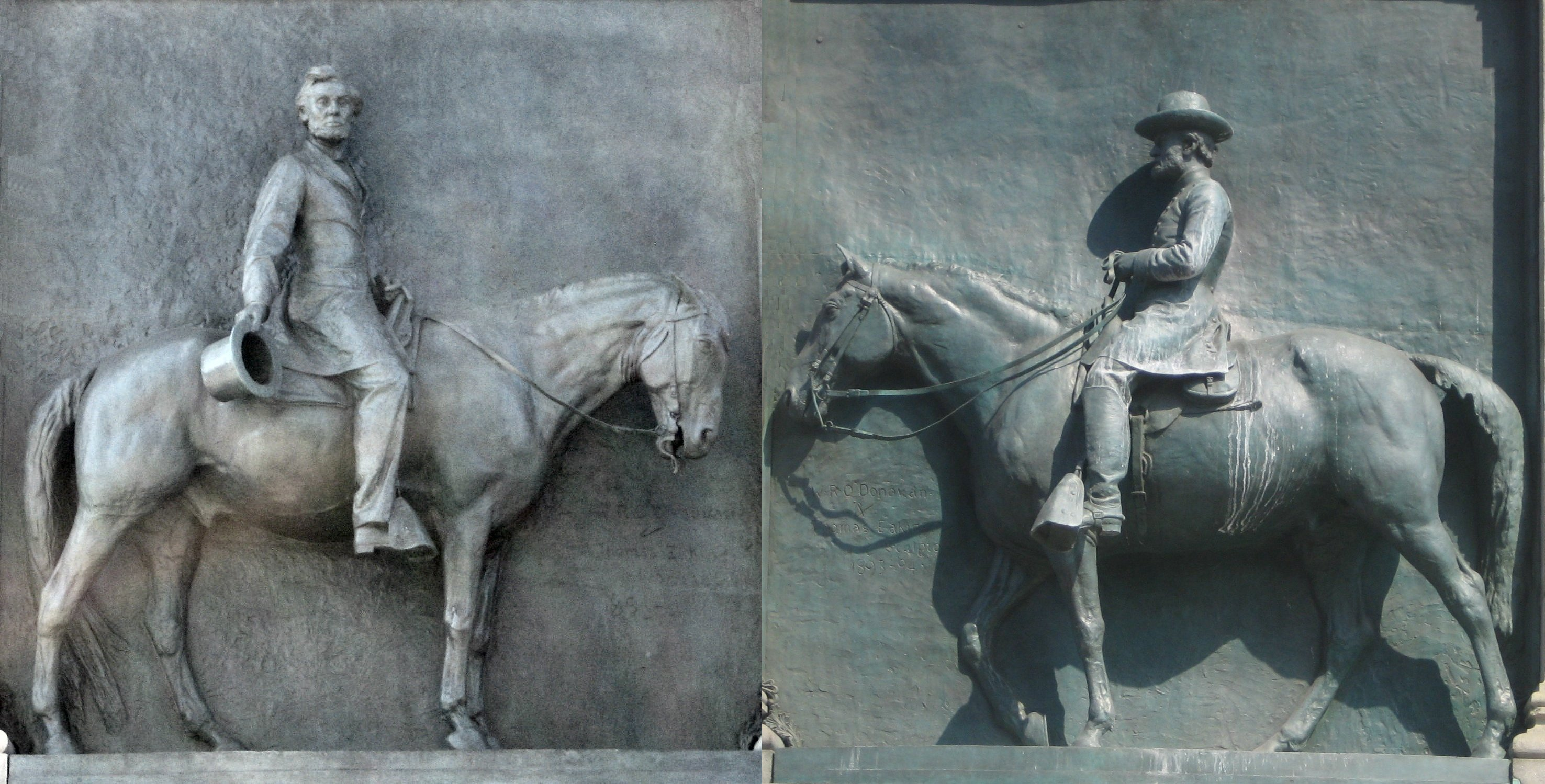 'Lincoln and Grant', bronze sculptures by William Rudolf O'Donovan (men) & Thomas Eakins (horses), 1893-1894, Grand Army Plaza, Brooklyn, New York City